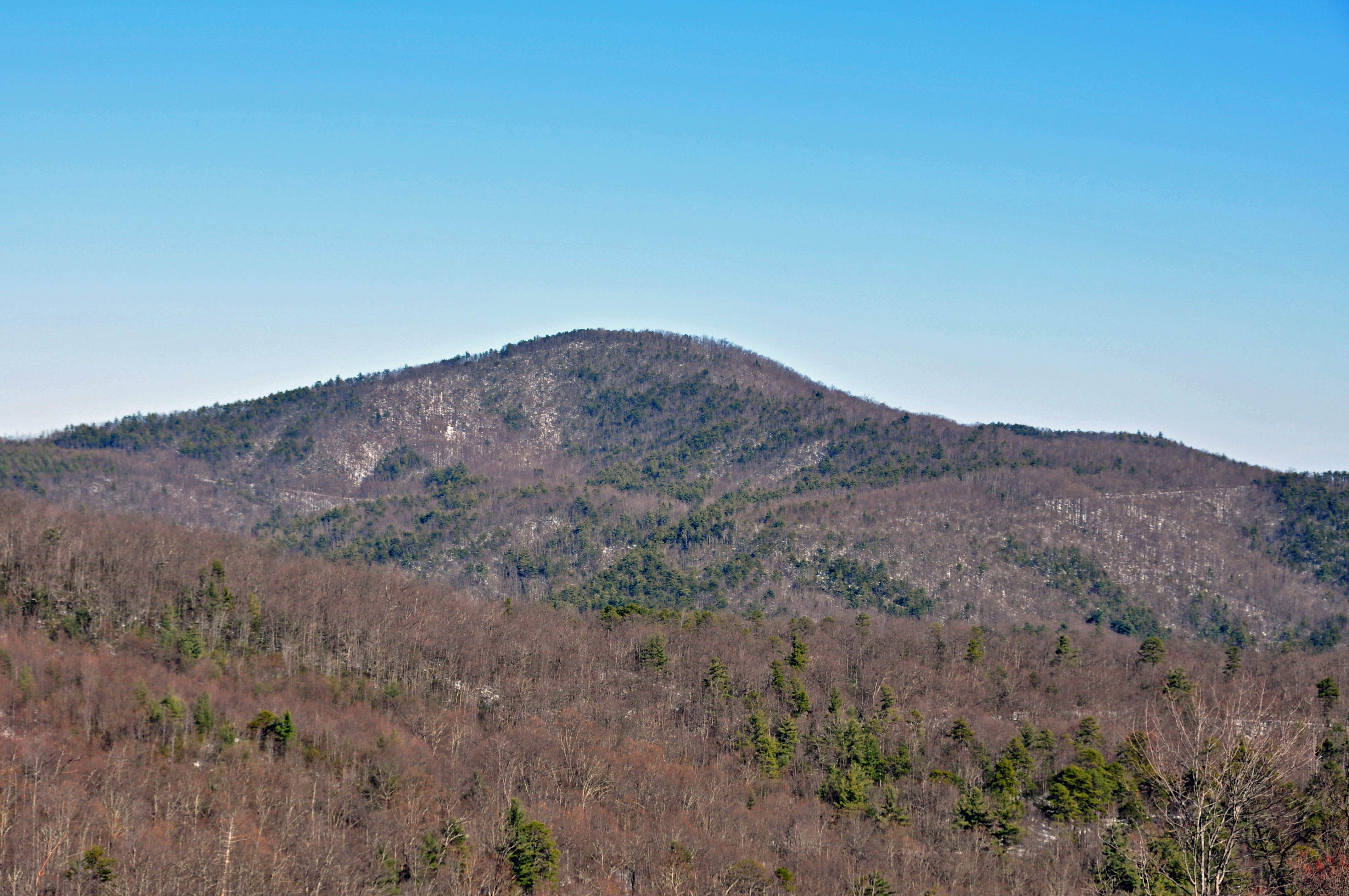 Photo taken from the NC181 Brown Mountain Overlook area in Burke County. It shows a sunny view of the western side of Chestnut Mountain.